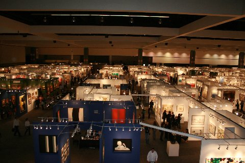 View of the Los Angeles Art Show, 2009